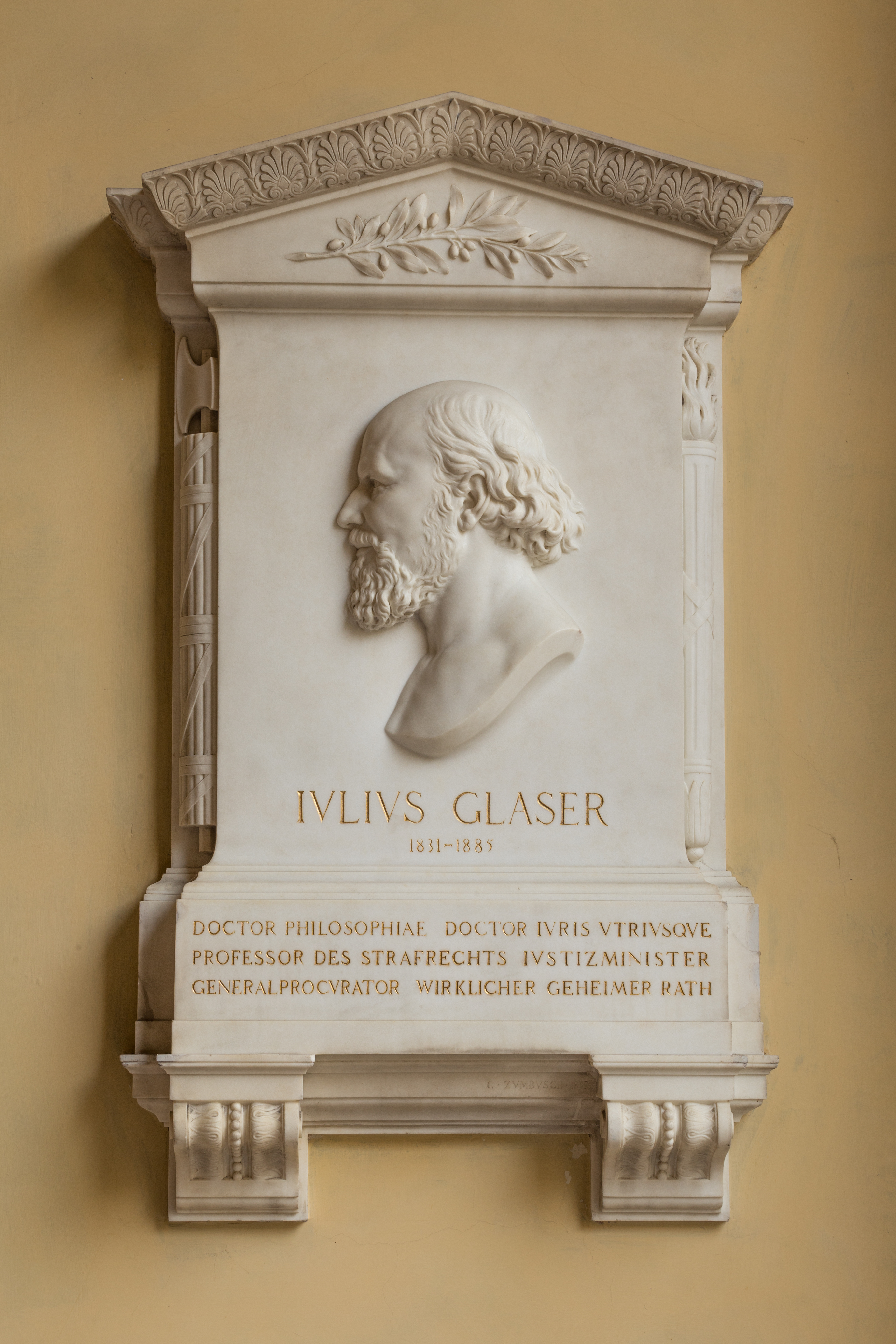 Julius Glaser (1831-1885), halfrelief (marble) in the Arkadenhof of the University of Vienna, (Maisel# 52). Artist: Kaspar Clemens Eduard Zumbusch (1830-1915), unveiled 1888 The making of this work was supported by Wikimedia Austria. For other files made with the support of Wikimedia Austria, please see the category Supported by Wikimedia Österreich.